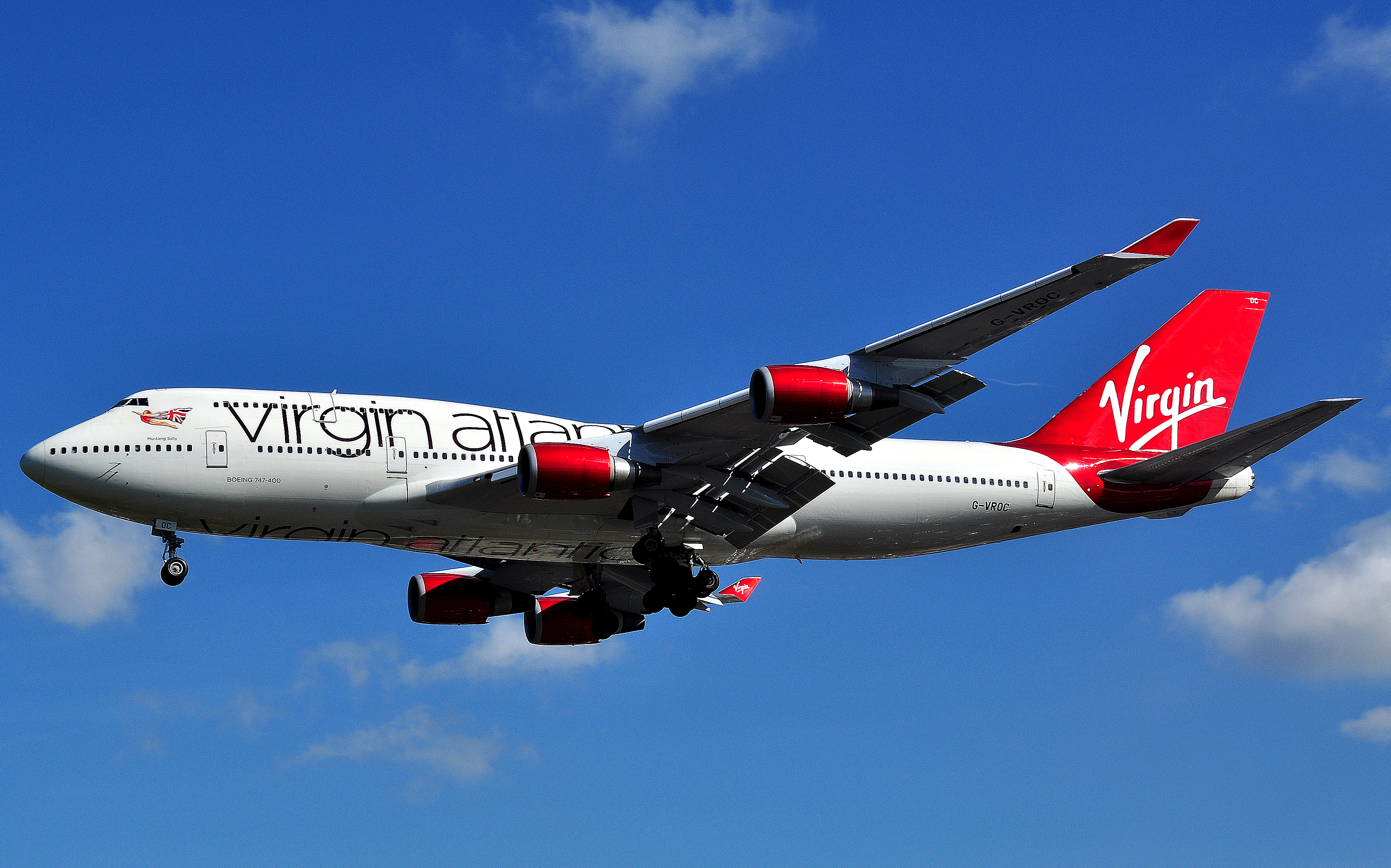 Model: Boeing 747-400 Airline: Virgin Atlantic Airways Registration number: G-VROC